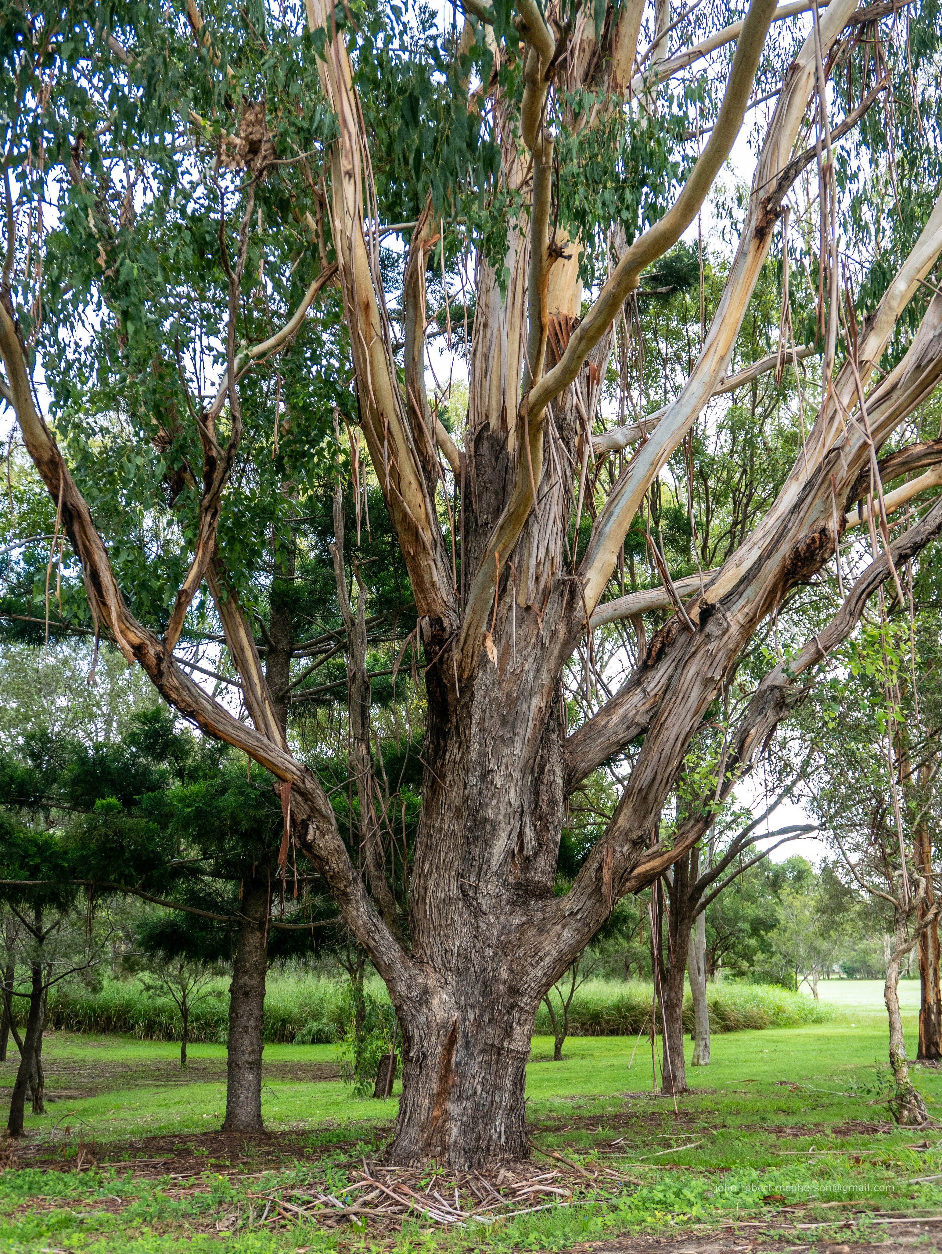 Eucalyptus grandis, the flooded gum or rose gum, has a few ornamentally planted specimens in 7th Brigade Park. Despite the park being drier than their preferred habitat they grow well, though not with the tall single-trunked habit typical of the species. Bark is shed in long ribbons from most of the trunk and branches, except for a persistent stocking of bark at the base.